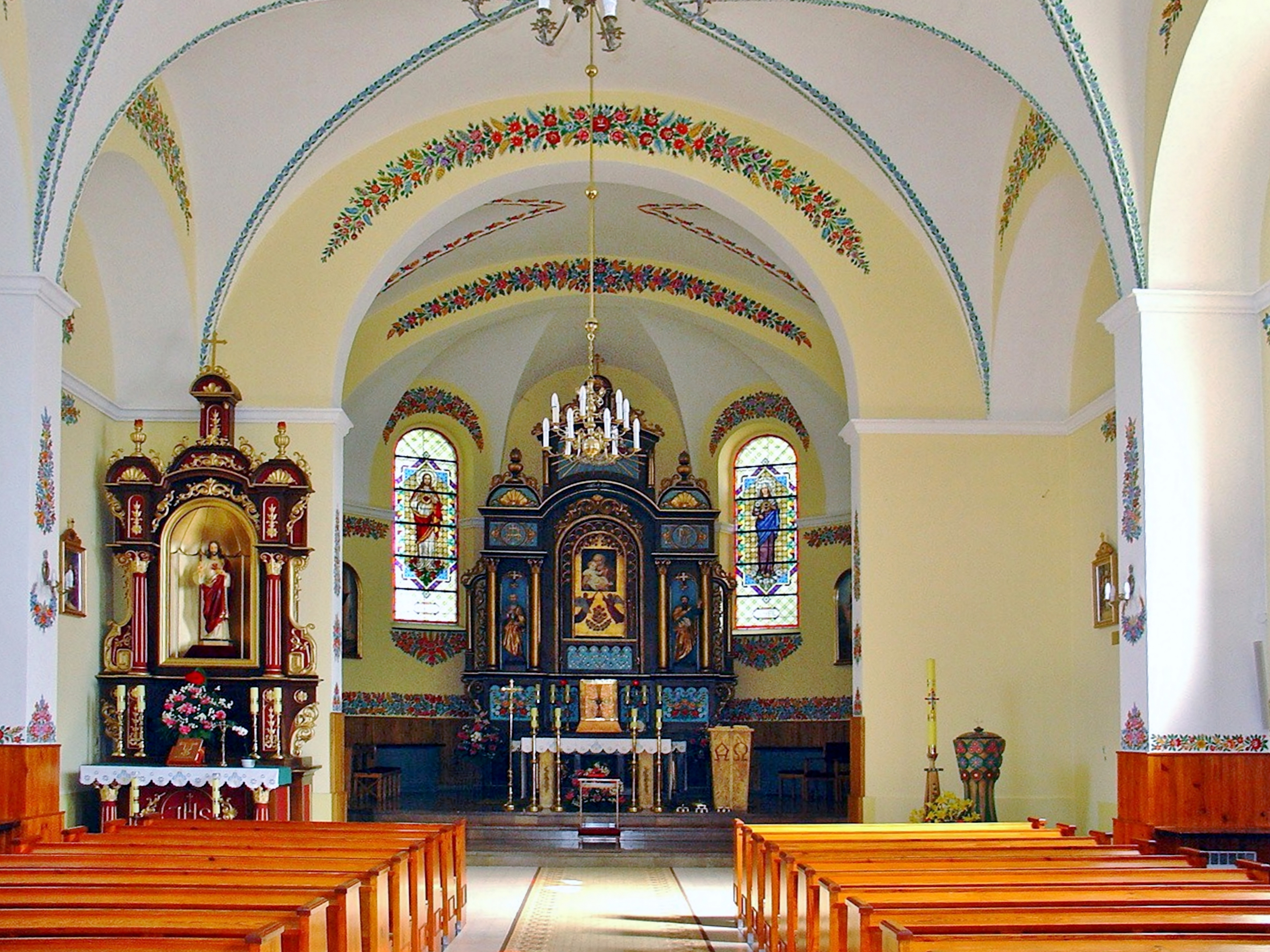 Zalipie - interior of the parish church of St. Joseph, spouse of the Blessed Virgin Mary